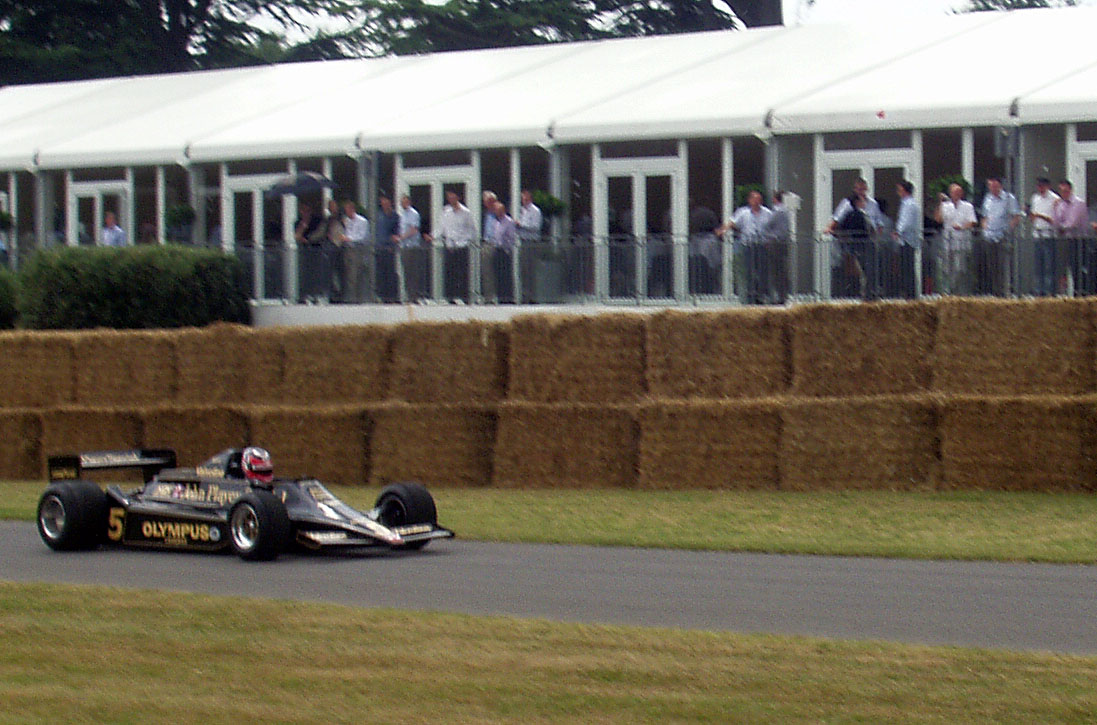 1978 Lotus 79 on the hillclimb at the 2006 Goodwood Festival of Speed